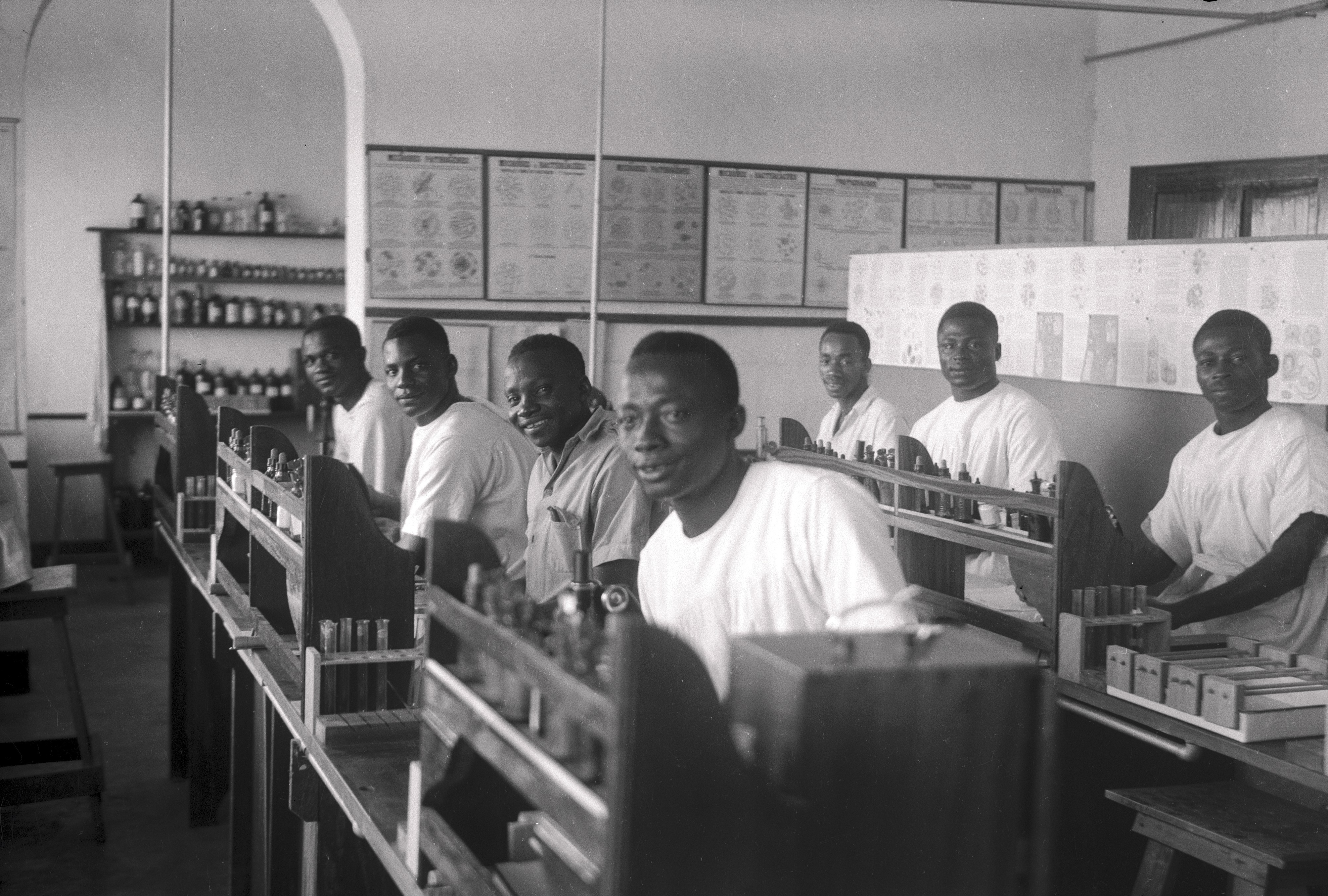 Students in the Teaching laboratory, Medical School, Yakusu Hospital, Yakusu, Belgian CongoPhotograph 1930's-1950s